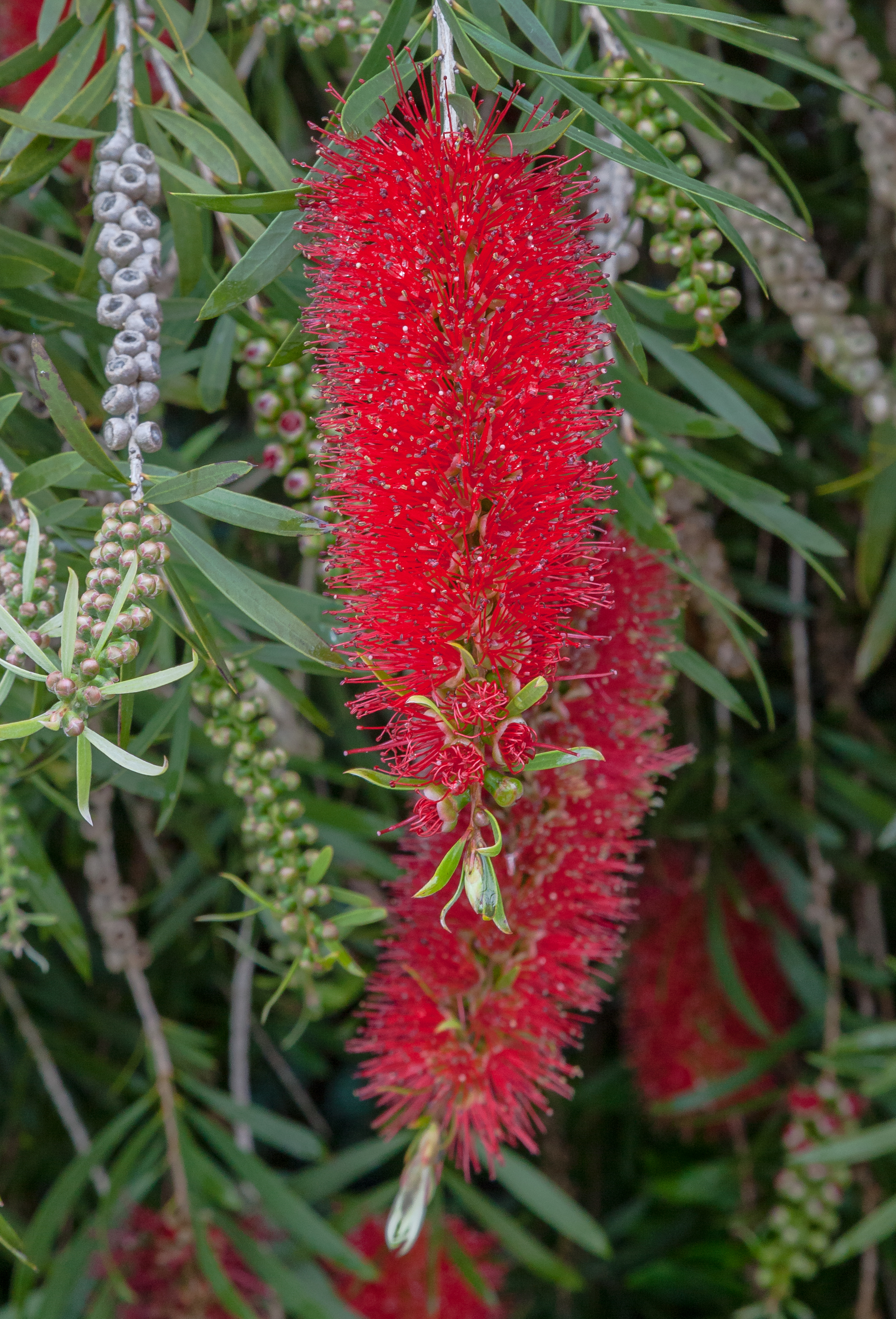 Crimson Bottlebrush (Callistemon citrinus), Setubal, Portugal